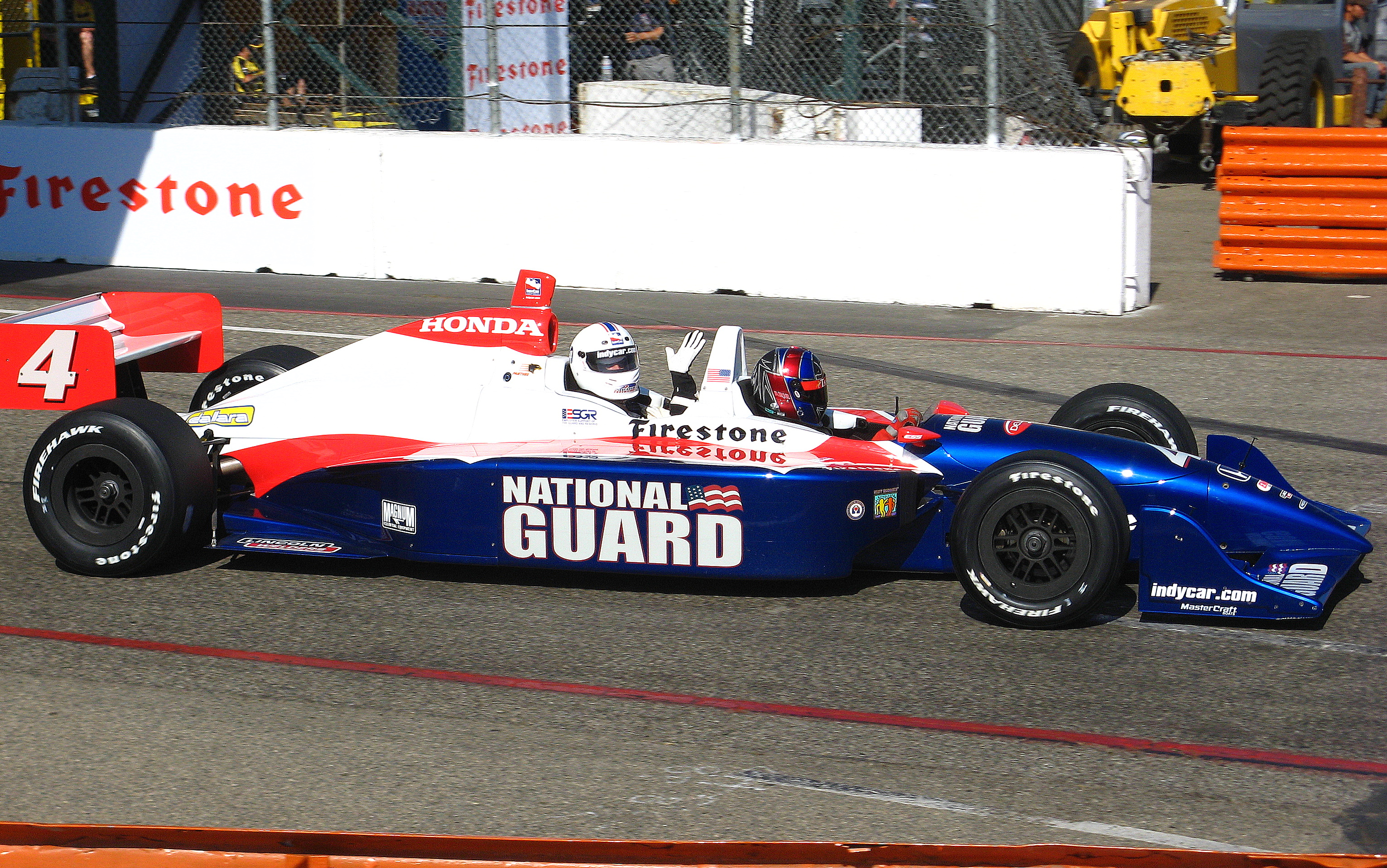 Huell Howser rides as a passenger in a 2-seat Indy Racing League open-wheel race car at the 2009 Long beach Gran Prix.